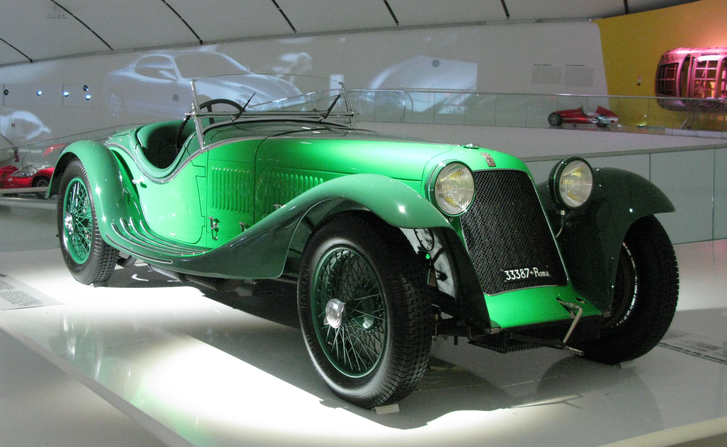 1932 Maserati Tipo V4. The car was rebodied by Zagato in 1934.